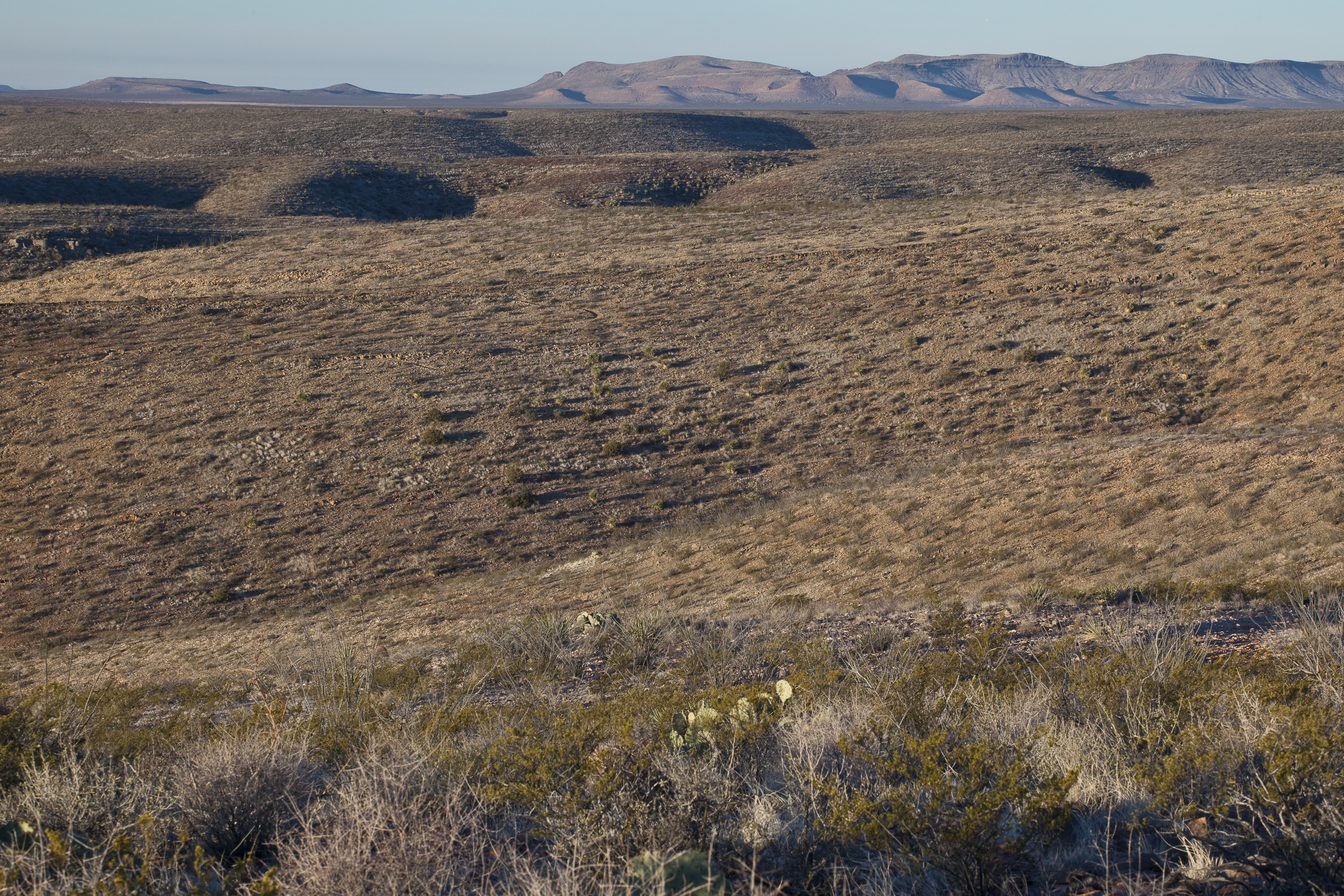 The Prehistoric Trackways National Monument was established in 2009 to conserve, protect, and enhance the unique and nationally important paleontological, scientific, educational, scenic, and recreational resources and values of the Robledo Mountains in southern New Mexico. The Monument includes a major deposit of Paleozoic Era fossilized footprint megatrackways within approximately 5,280 acres. The trackways contain footprints of numerous amphibians, reptiles, and insects (including previously unknown species), plants, and petrified wood dating back 280 million years, which collectively provide new opportunities to understand animal behaviors and environments from a time predating dinosaurs. The site contains the most scientifically significant Early Permian track sites in the world. There are opportunities for hiking, horseback riding, and off highway vehicle driving in portions of the monument. However, viewing trackways is limited; as they are discovered, and to preserve them for ongoing and future scientific study, the trackways are removed and transported to the New Mexico Museum of Natural History and Science. Learn more about the national monument Photo: Bob Wick, BLM California